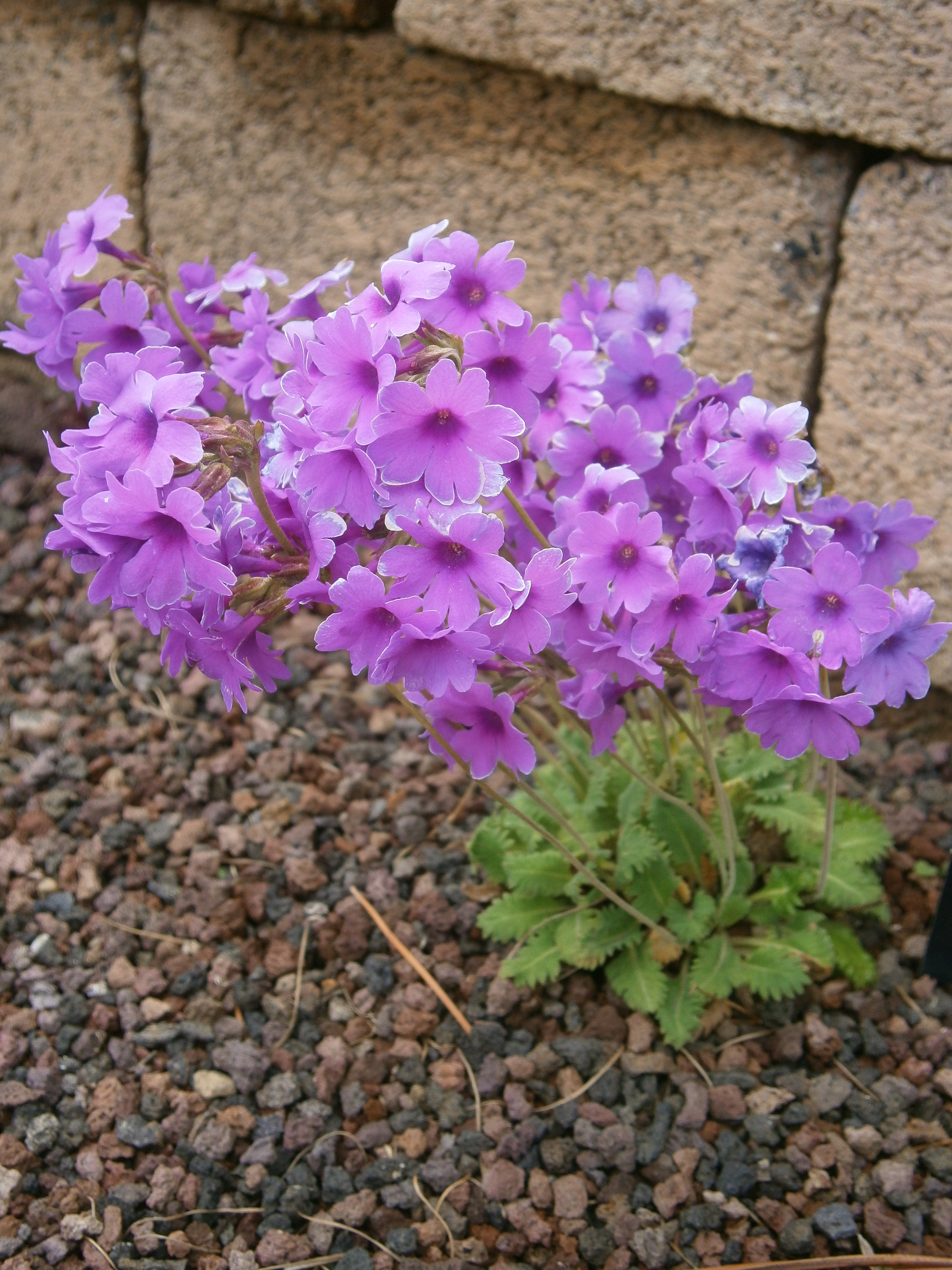 Primula blinii in the Jardin Botanique Alpin du Lautaret